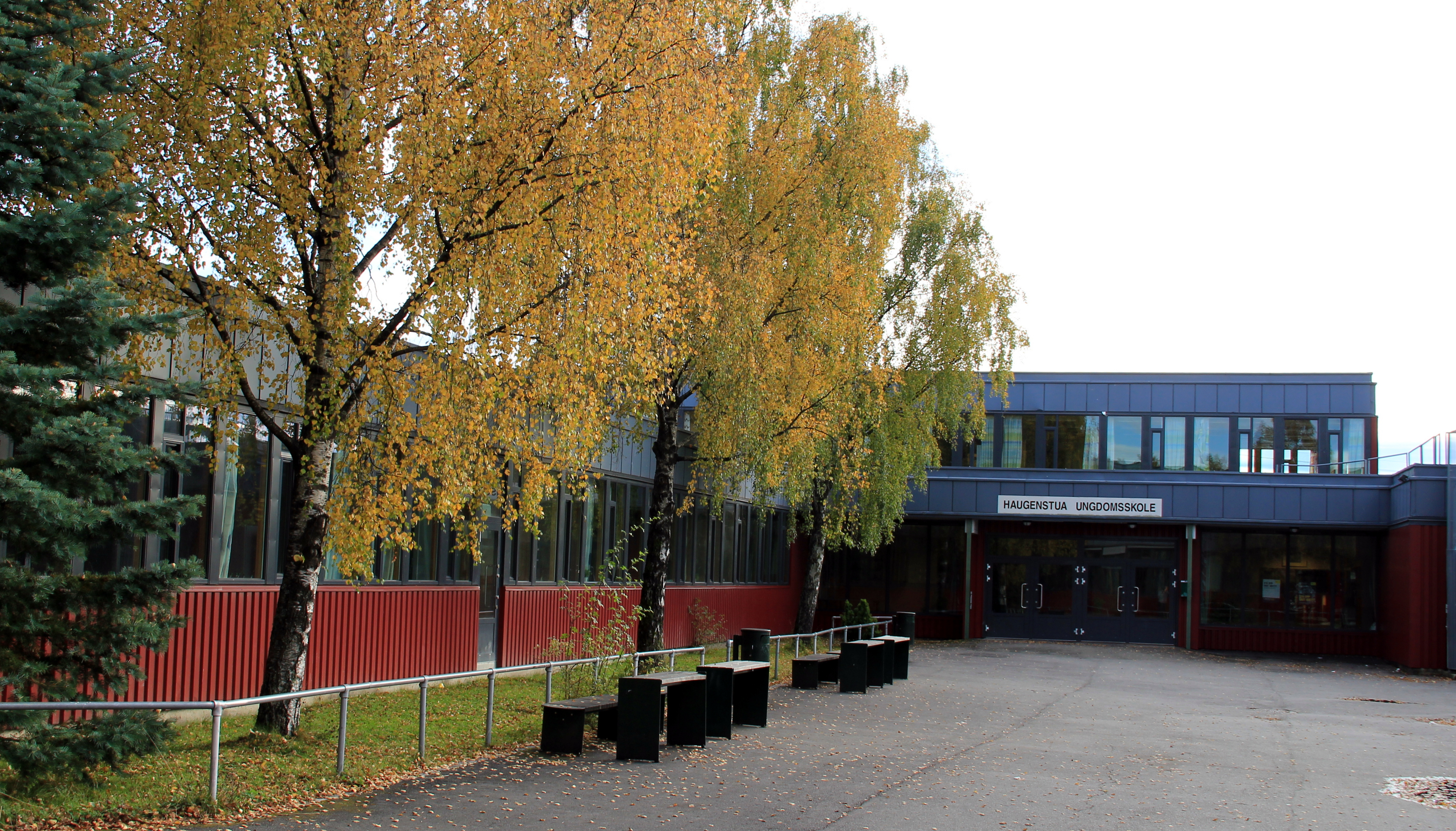 Haugenstua skole in Oslo